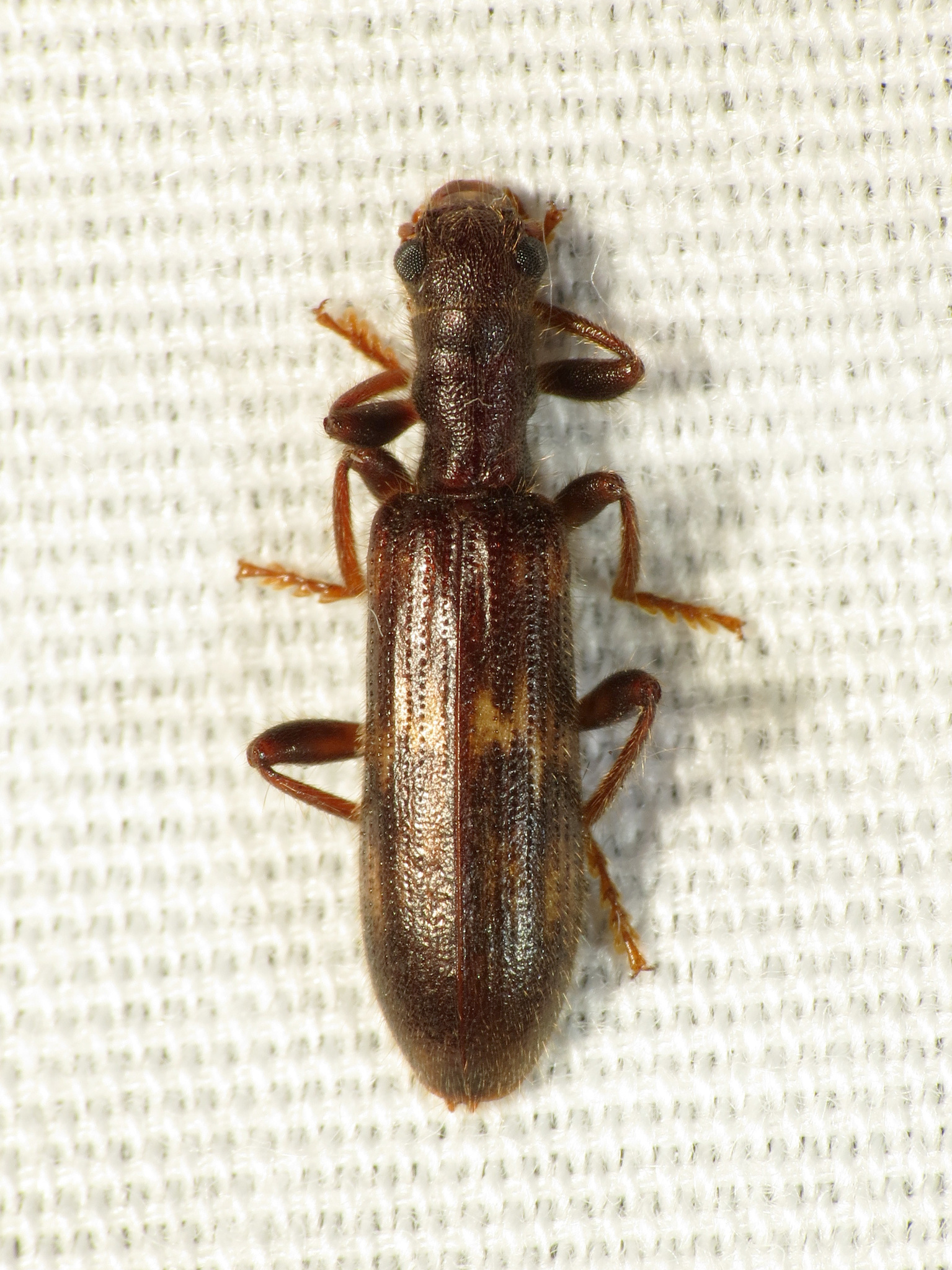 Cymatodera flavosignata. Species of insect.